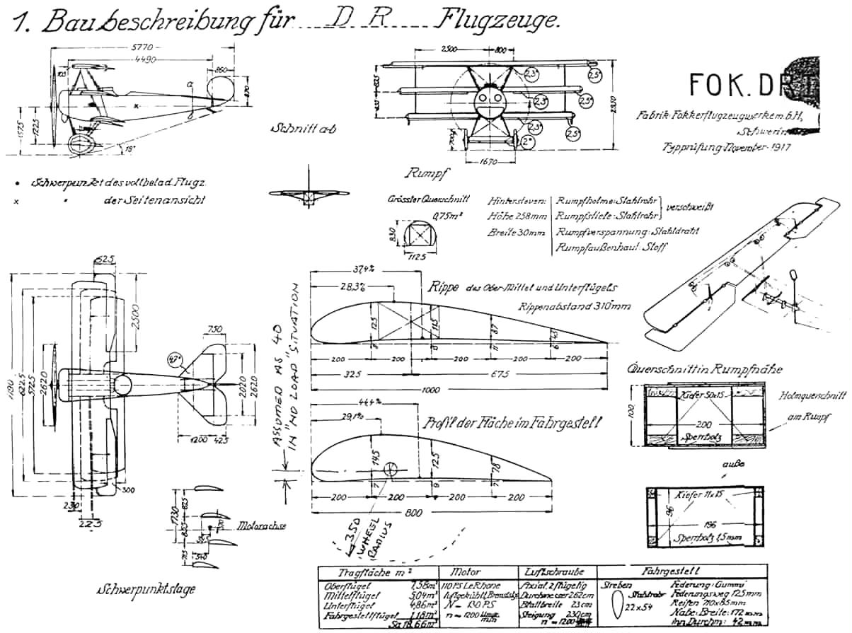 Fokker Dr.I German World War 1 single seat triplane fighter